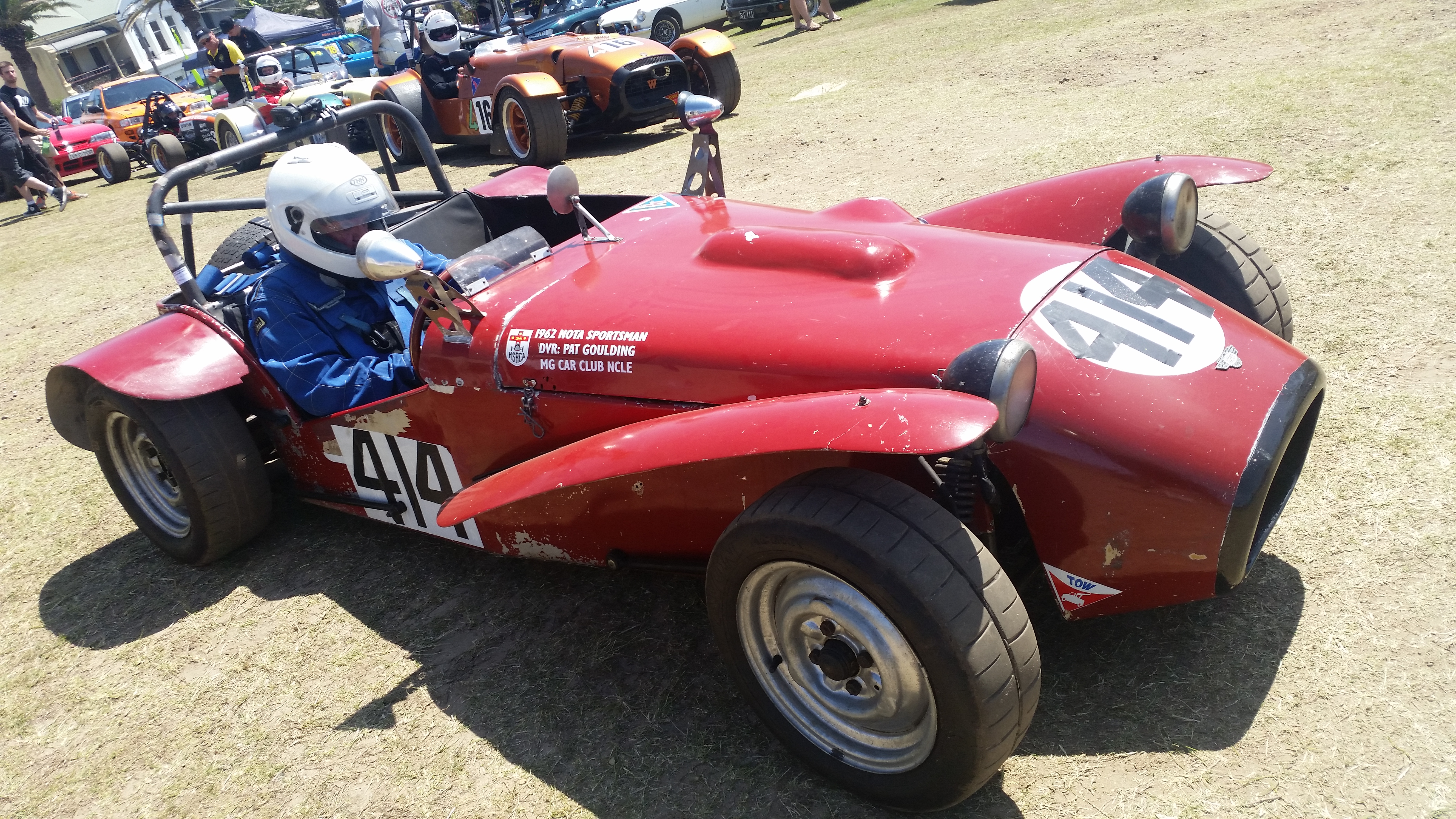 Pat Goulding's 1962 Nota Sportsman at the last ever Mattara Hillclimb, Newcastle 2015.